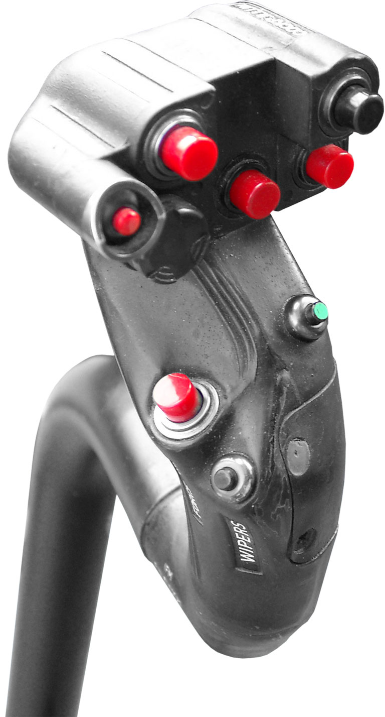 Pilot stick of a helicopter.